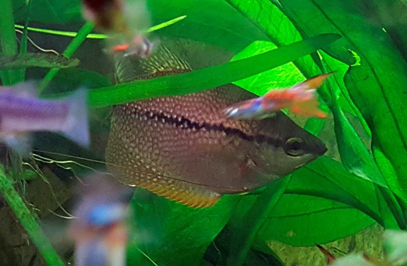 Trichogaster Leeri